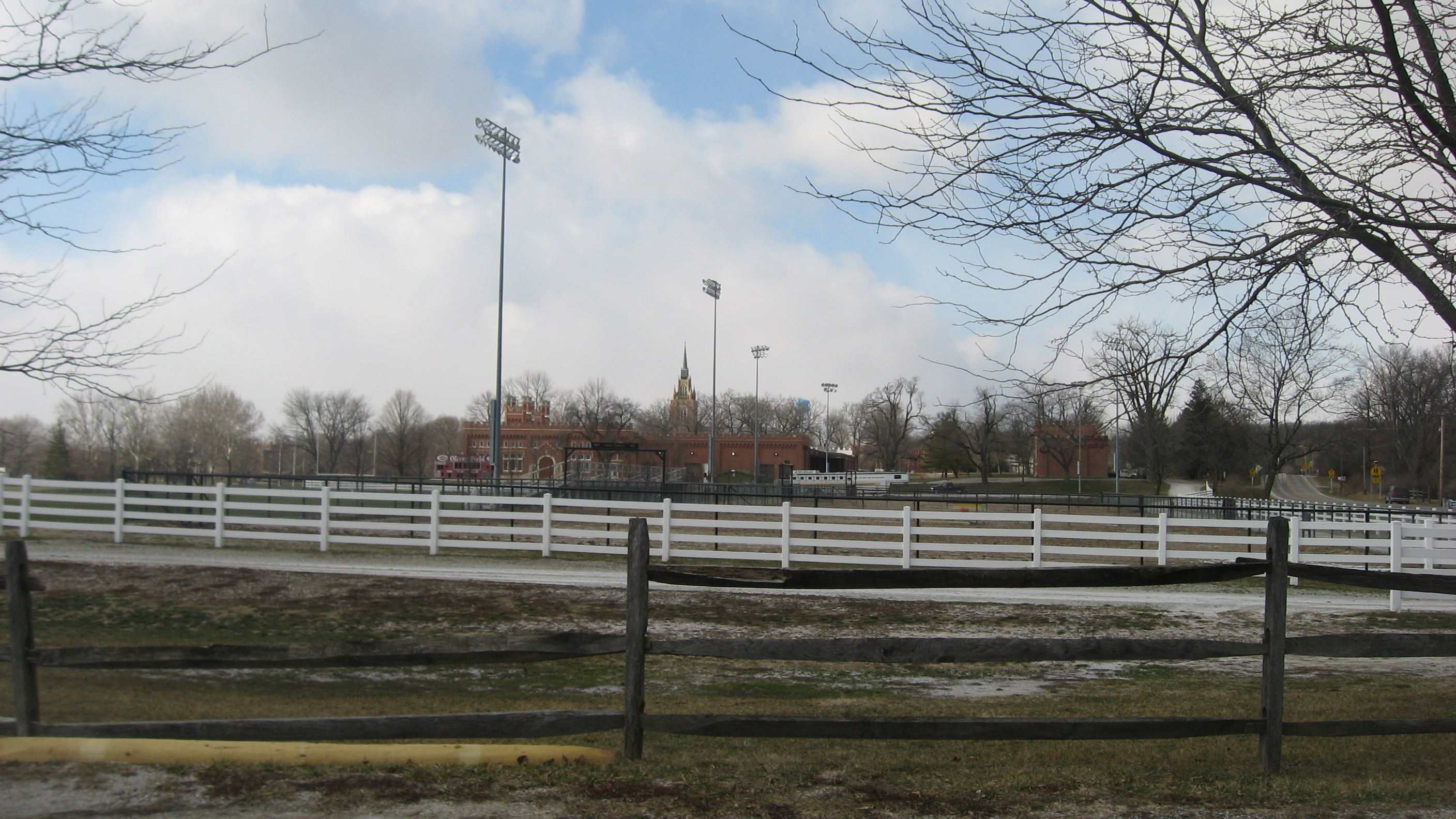 Overview from the east of fields and buildings at the Culver Academies, located just east of Culver in Union Township, Marshall County, Indiana, United States. Photo is taken from State Road 117 at the State Road 10 intersection.